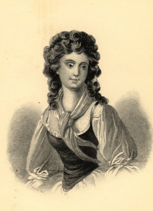 19th Century engraving by Fath of Stéphanie Félicité Ducrest de St-Albin, comtesse de Genlis